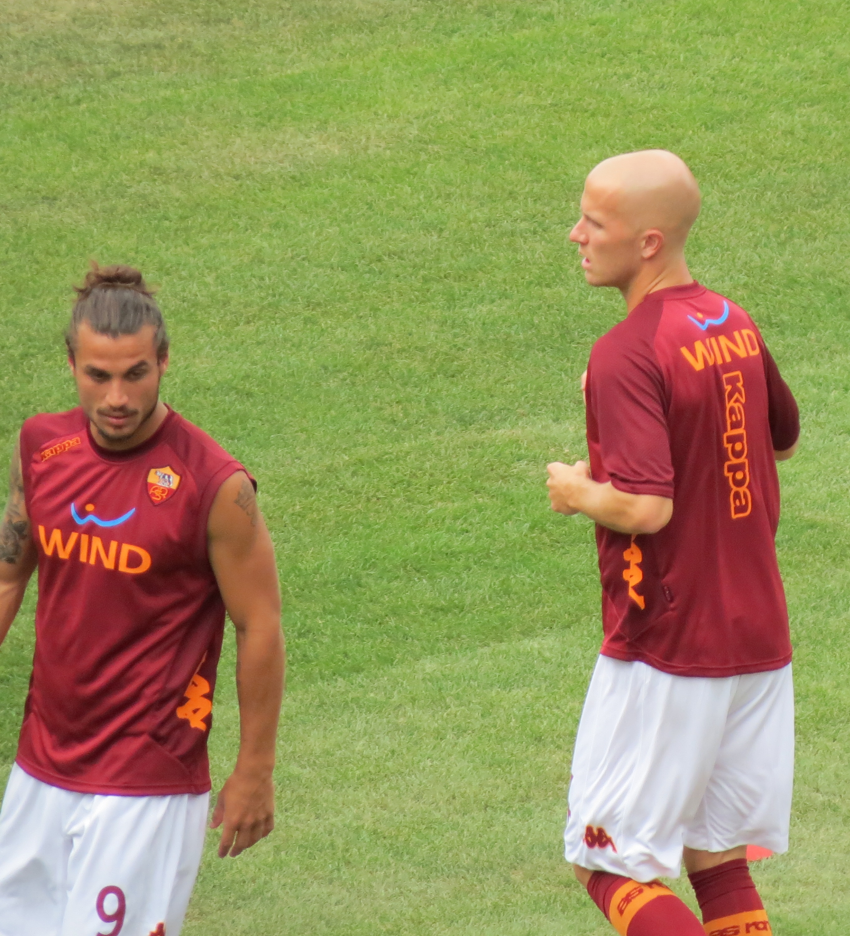 Osvaldo and Bradley training before friendly in Chicago.